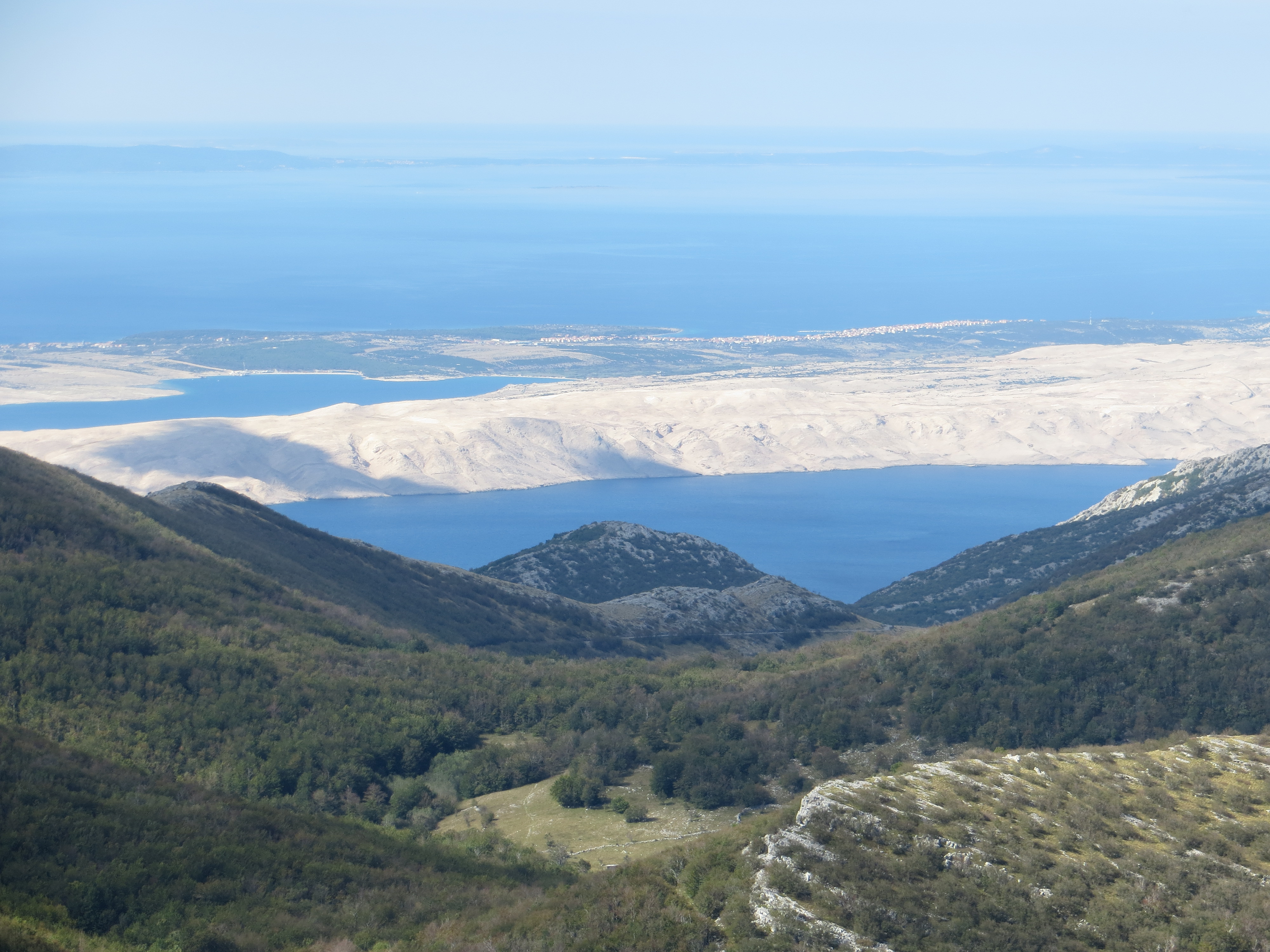 Town of Novalja, on the island of Pag, as seen from Kiza peak (a distance of c. 22 km).